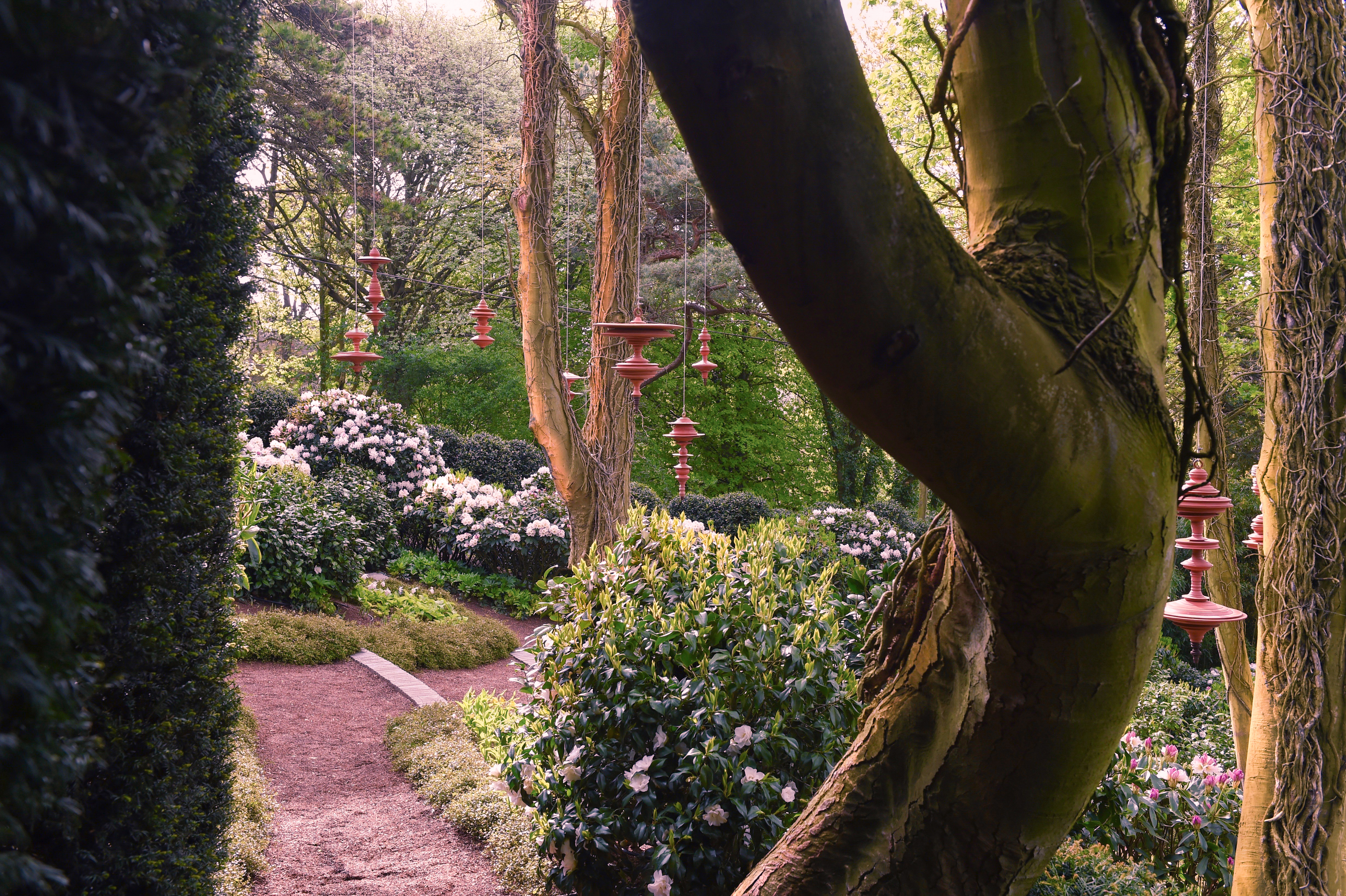 France, Etretat, Etretat Gardens, Le Jardin Zen